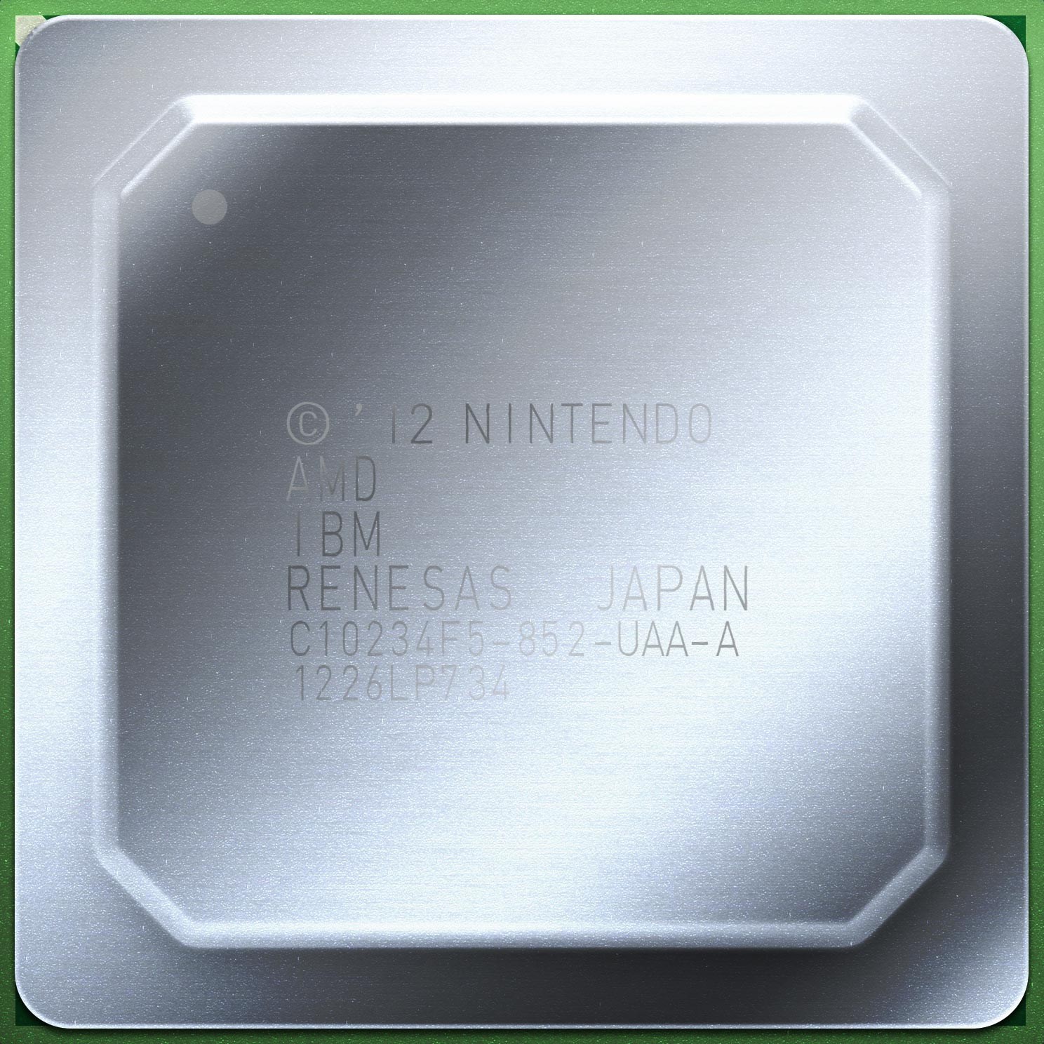 An illustration of the Wii U MCM with heat spreader. The markings indicate that it's designed by Nintendo, and its components are made by AMD, IBM and Renesas. It also says that it was assembled in the 26th week of 2012. Inspiration from images provided by Nintendo [1], iFixit [2] and AnandTech [3]